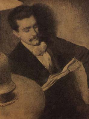 Gabriel de Yturri (1864-1905), secretary and lover of Robert de Montesquiou (1855-1921), in a portrait by Antonio de La Gándara.